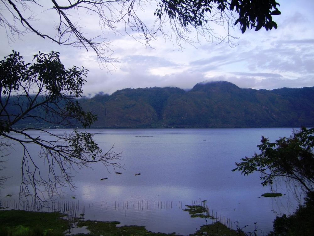 Lake Laut Tawar, Takengon, Aceh Tengah, NAD